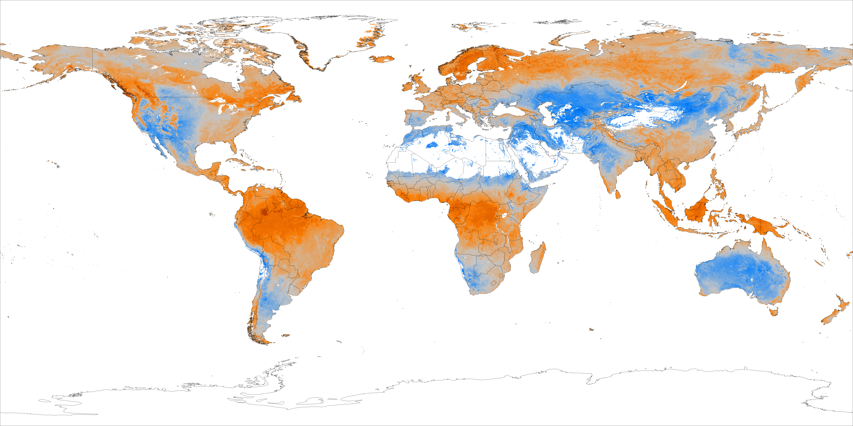 Mean soil pH measured in H2O and predicted using correlation with worldmaps